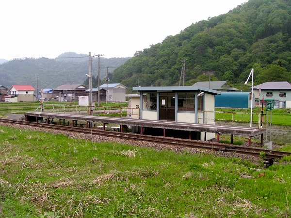 Aizu-Shiosawa Station, Tadami, Minamiaizu District, Fukushima, Japan